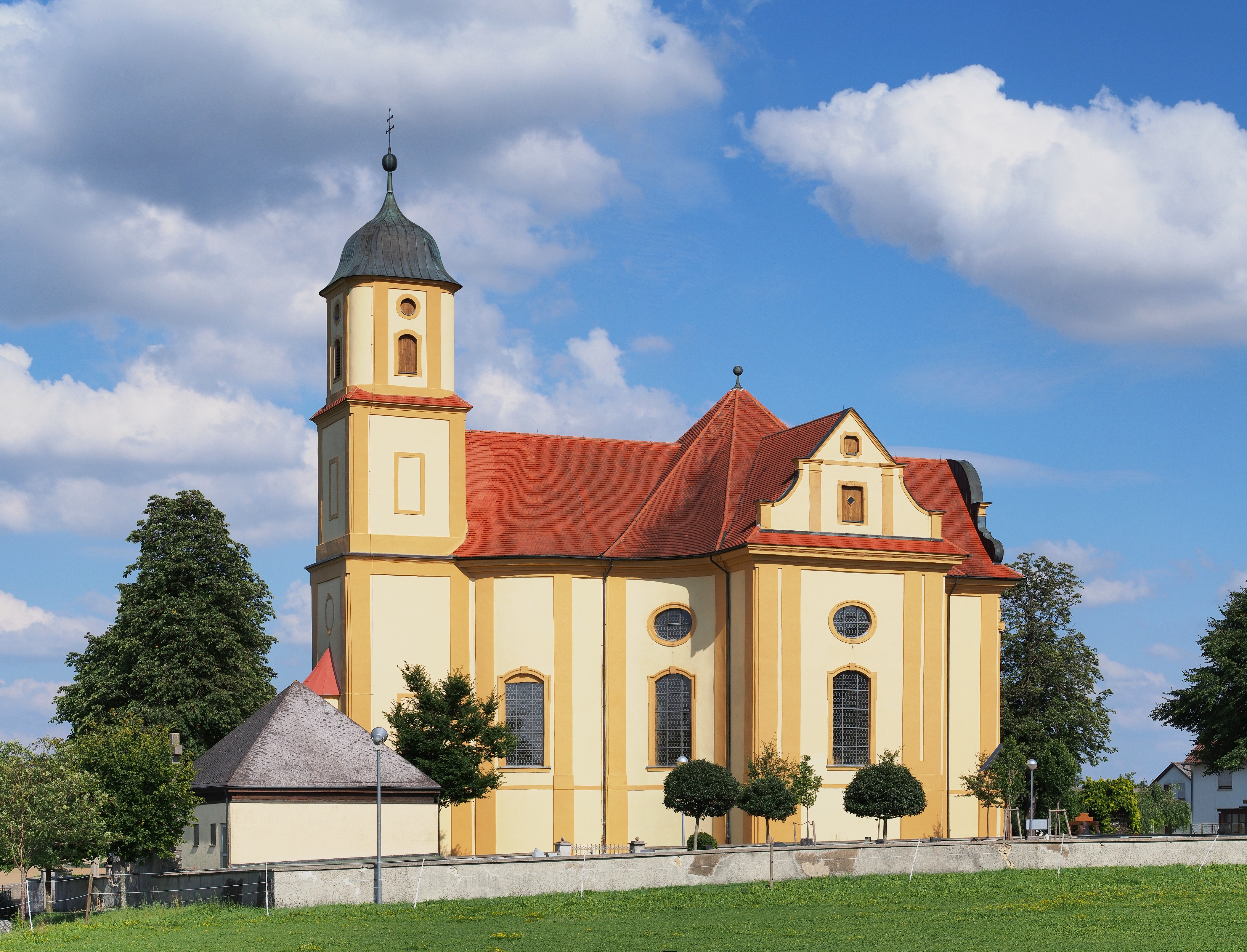 St Mary pilgrimage church, Zöbingen, Germany